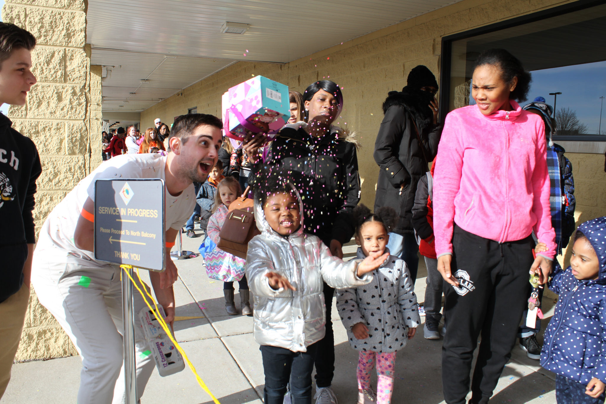 Easter Egg Hunt line at Maumee Campus in 2018.